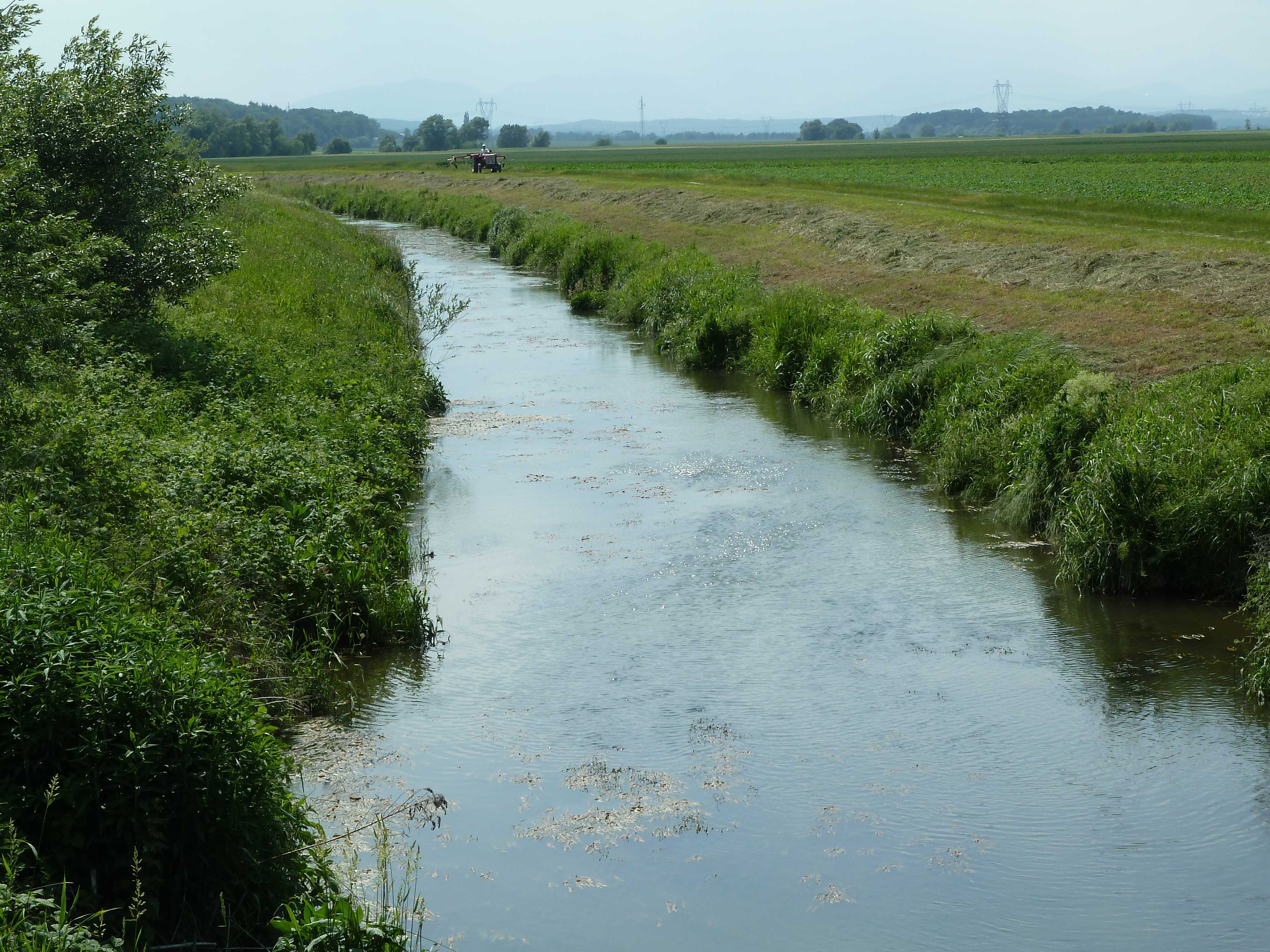 Regulated Polskava River below the village of Podlože